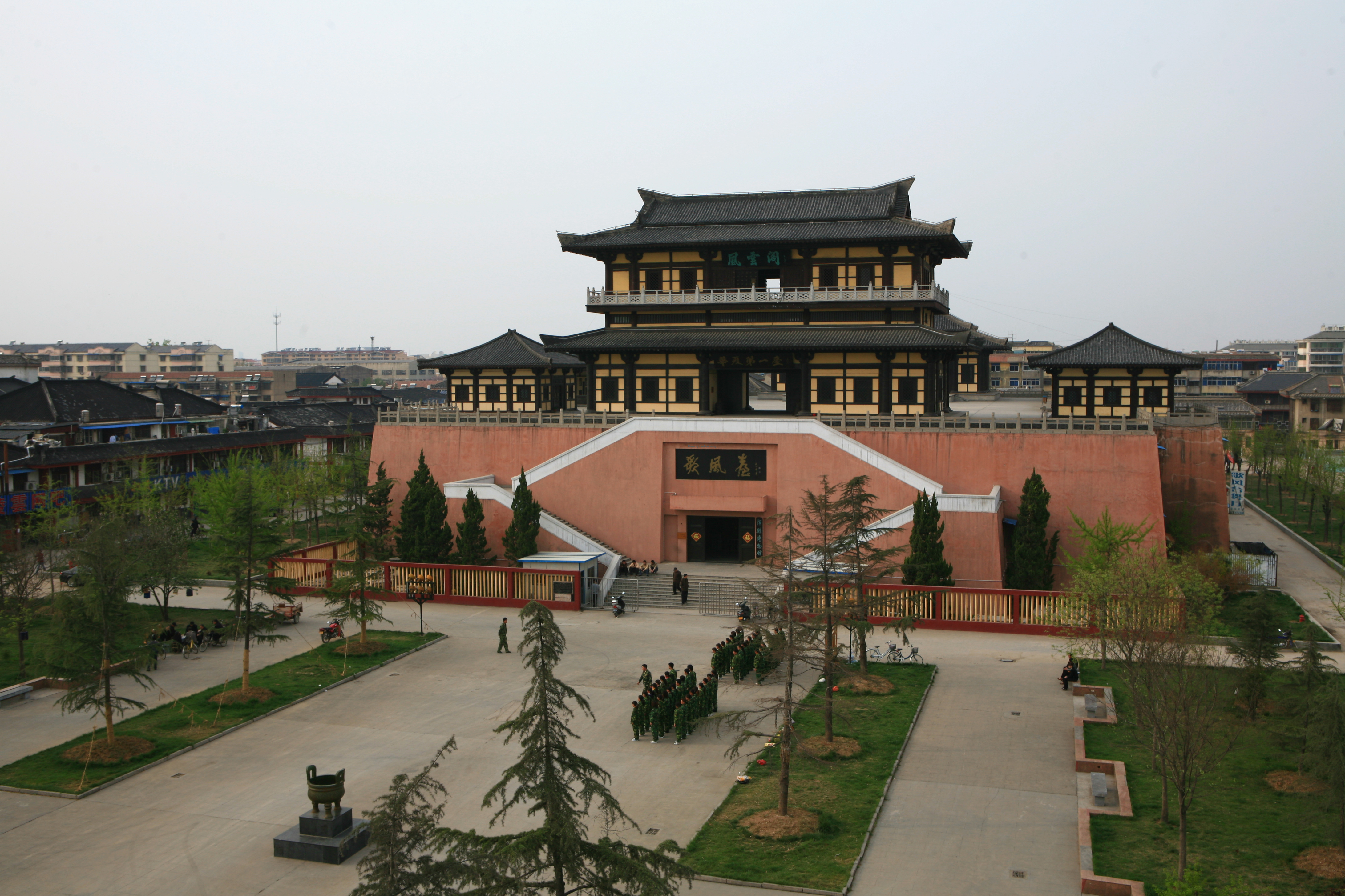 Gefeng Tai Altar in Peixian Couty ,Jiangsu